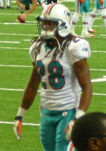 If used somewhere other than Wikipedia, Nelson, by name.